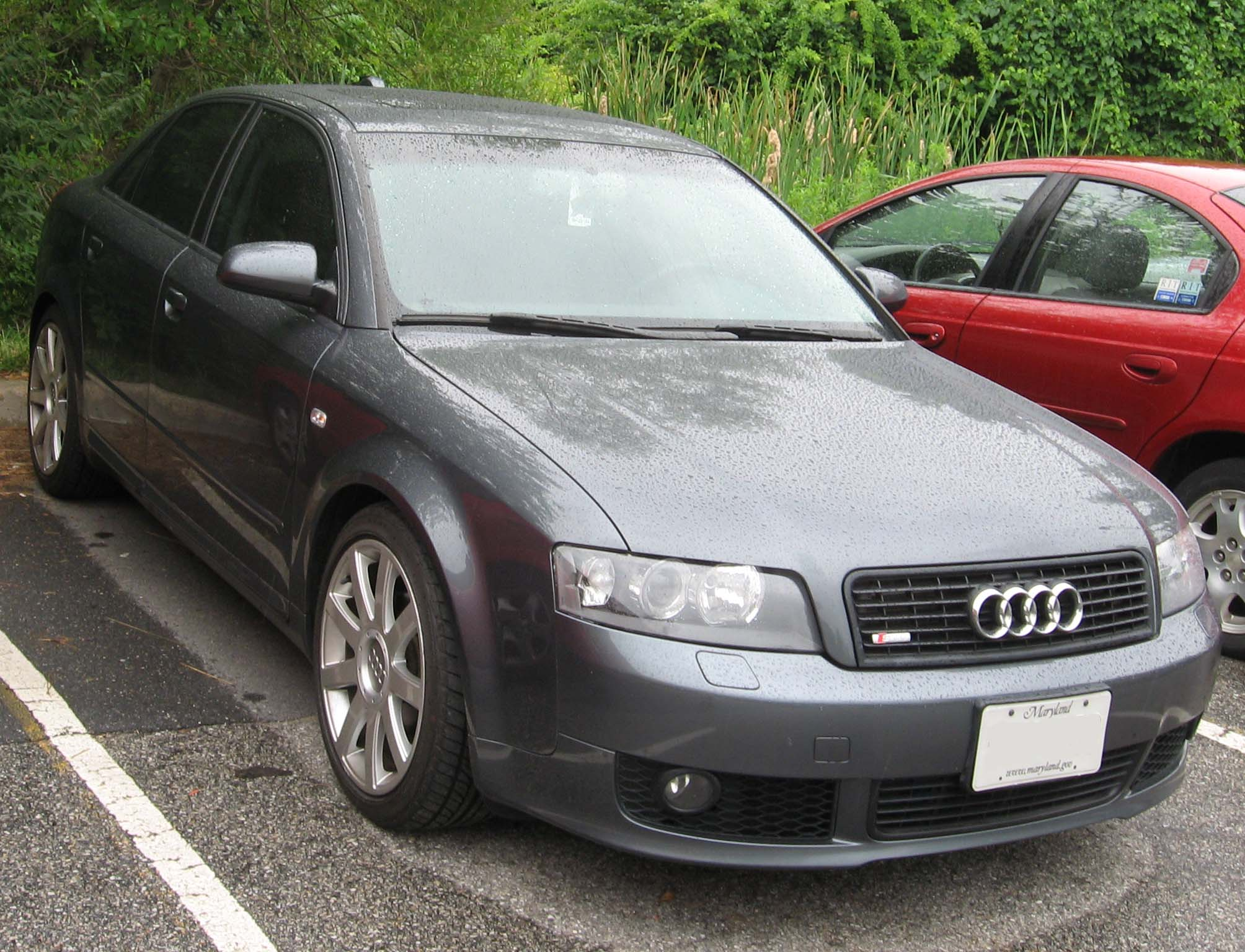 2005 Audi A4 photographed in USA.